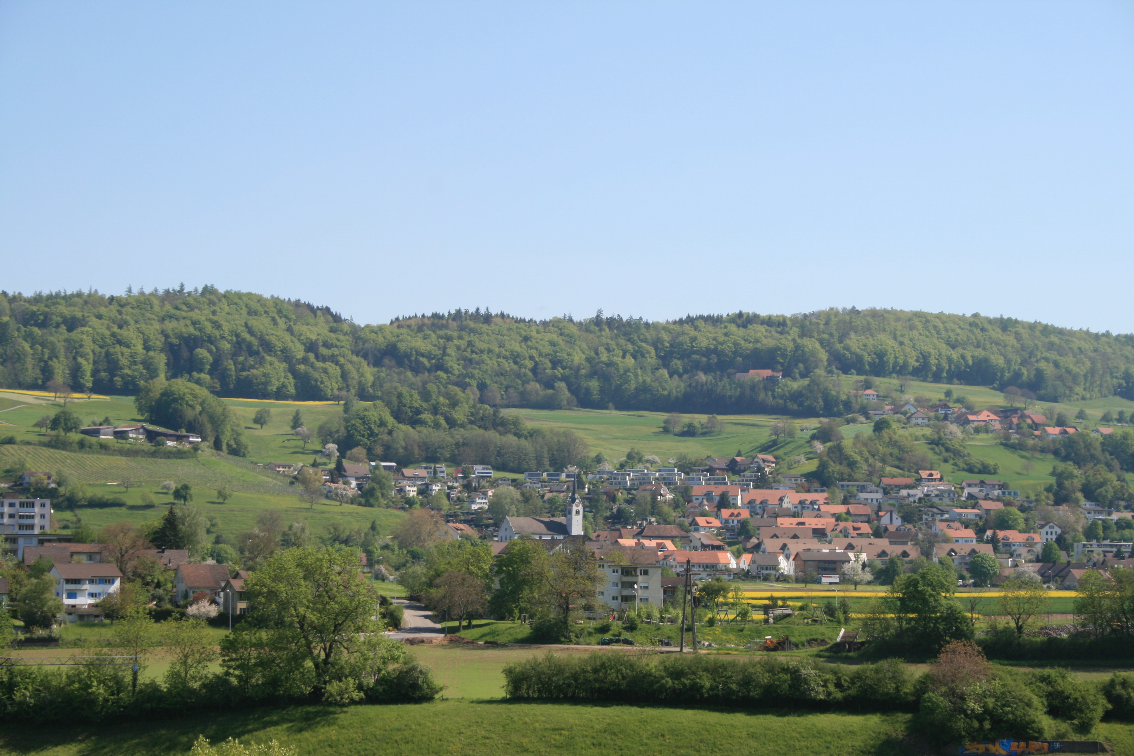 The village of Kirchdorf, Obersiggenthal, Switzerland